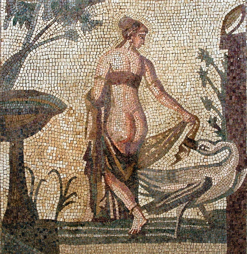 Tile mosaic depicting Leada and the Swan from the Sanctuary of Aphrodite, Palea Paphos; now in the Cyprus Museum, Nicosia